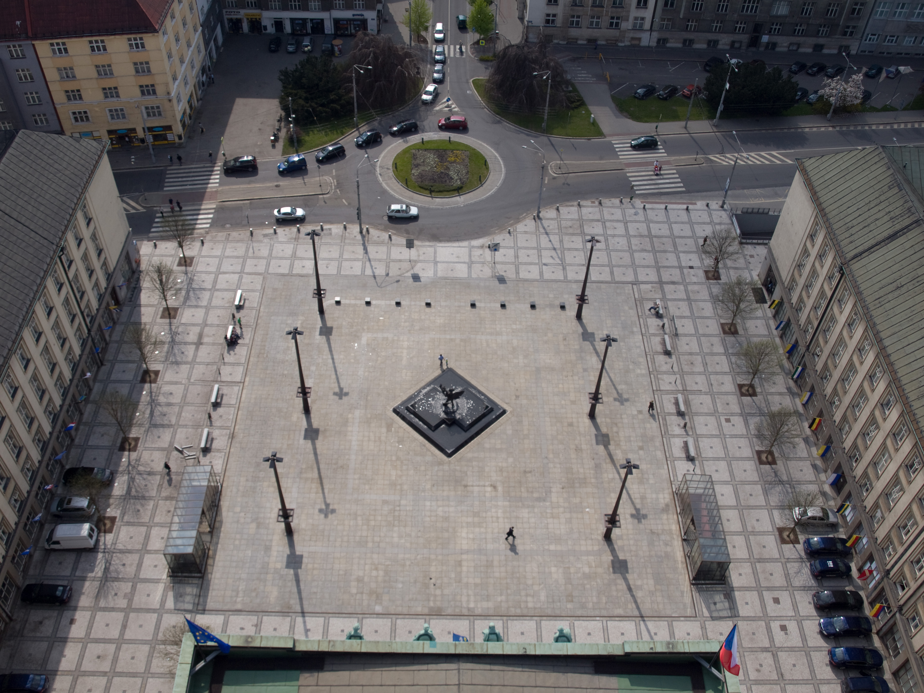 Views from Nová radnice, Prokešovo square, Moravská Ostrava